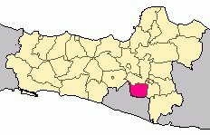 Locator map for the Kabupaten (Regency) of Klaten, provinsi Jawa Tengah (Central Java Province), Indonesia